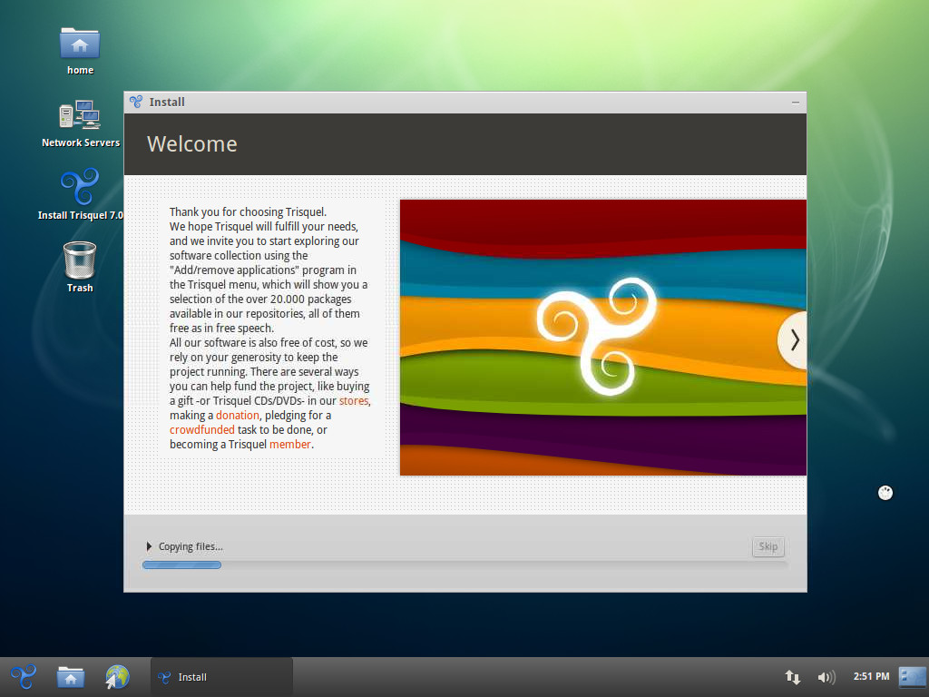 Trisquel Installer